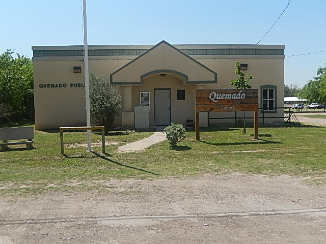 I took photo with Nikon camera of library in Quemado, TX.